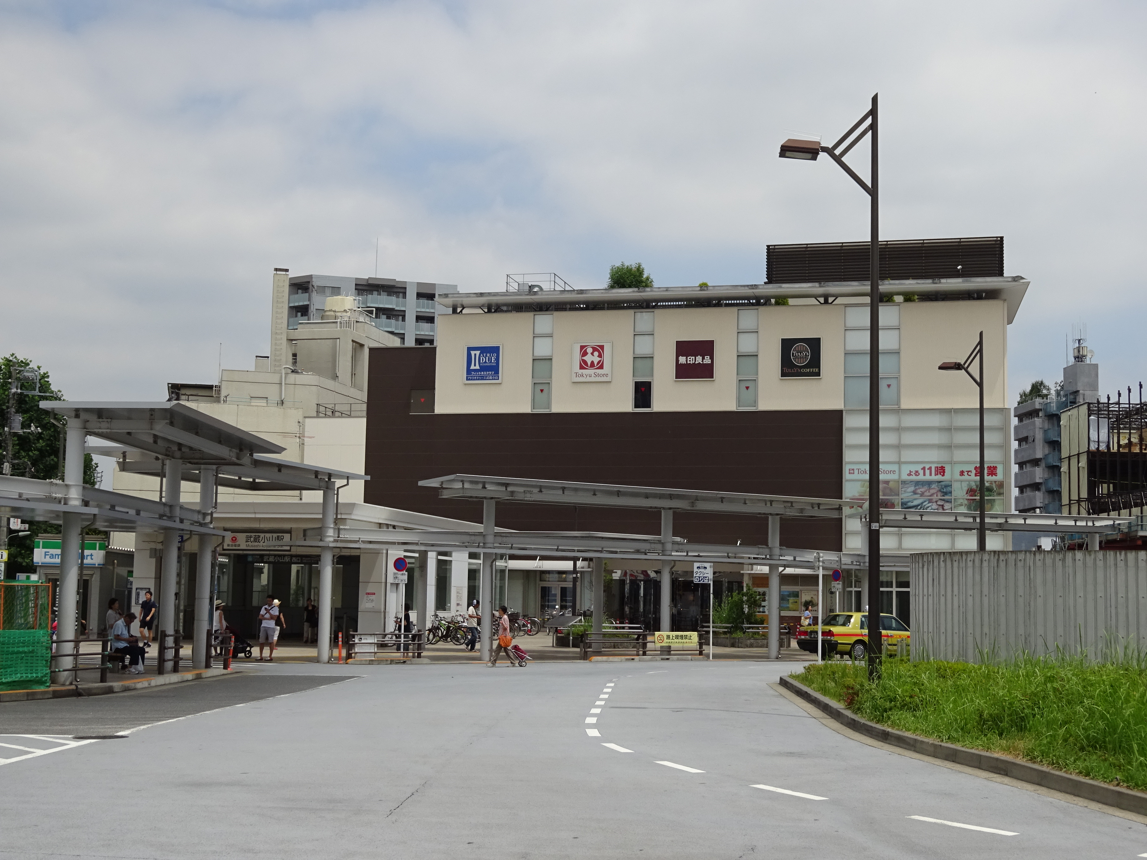 West Entrance of Musashi-koyama Station